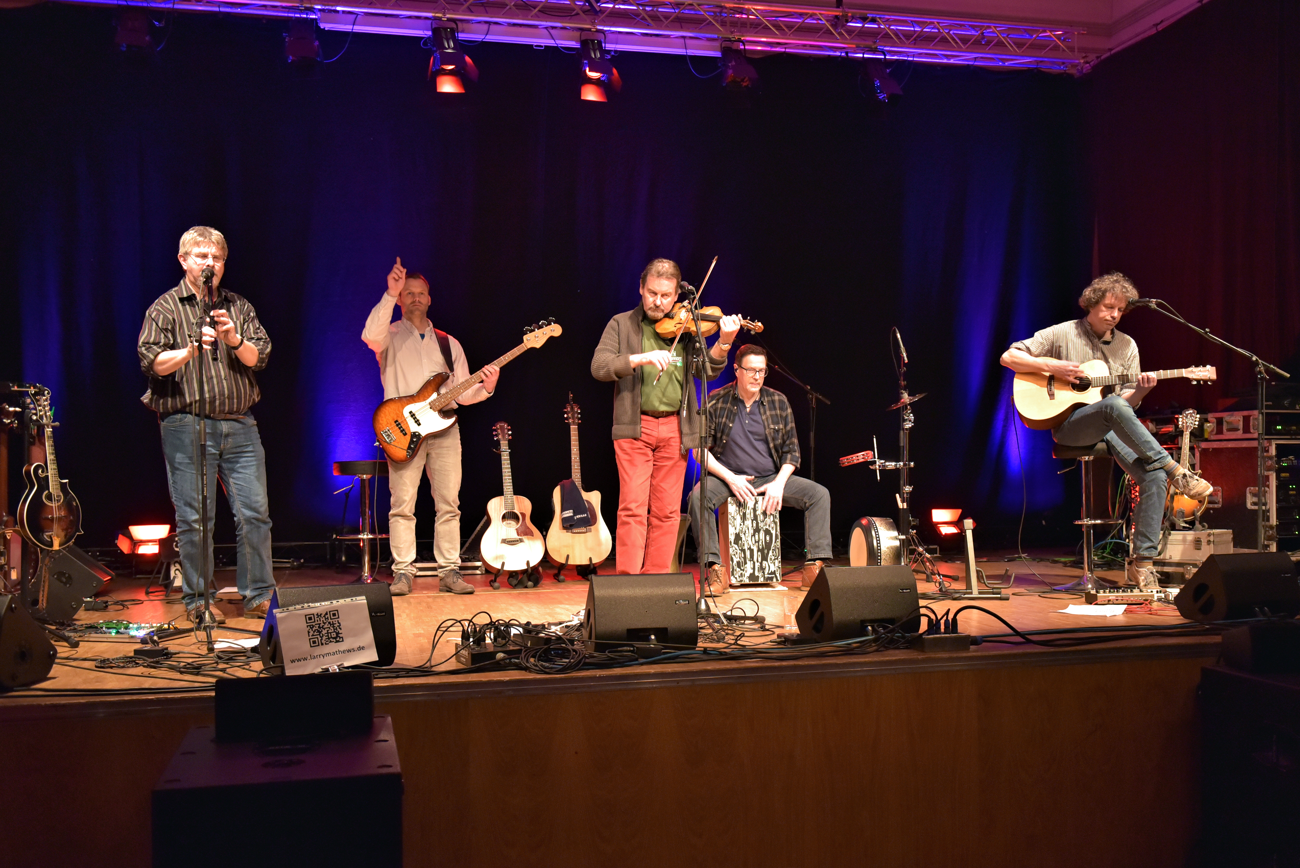 Larry Mathews' Blackstone Band, soundcheck, Kolosseum Lübeck, 9. Mar. 2018